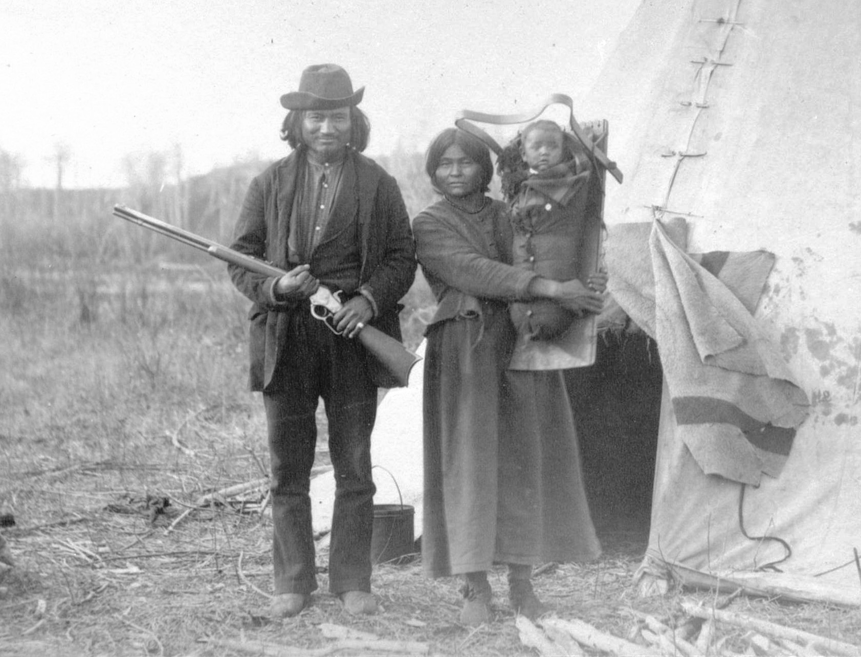 James Quesace with his wife and infant, October 16, 1886 in north west Manitoba, Canada.